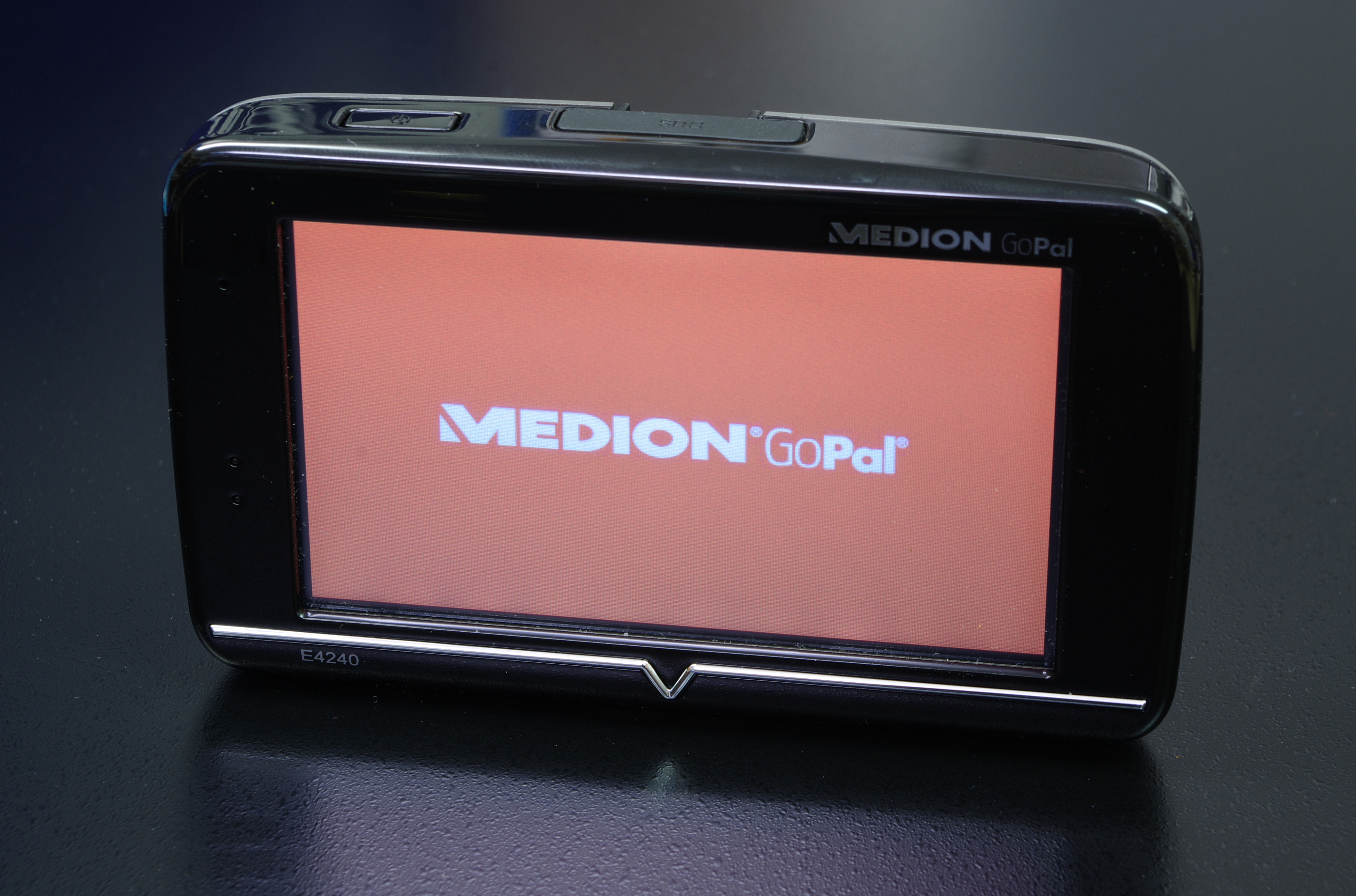 Navigationssystem Medion Gopal